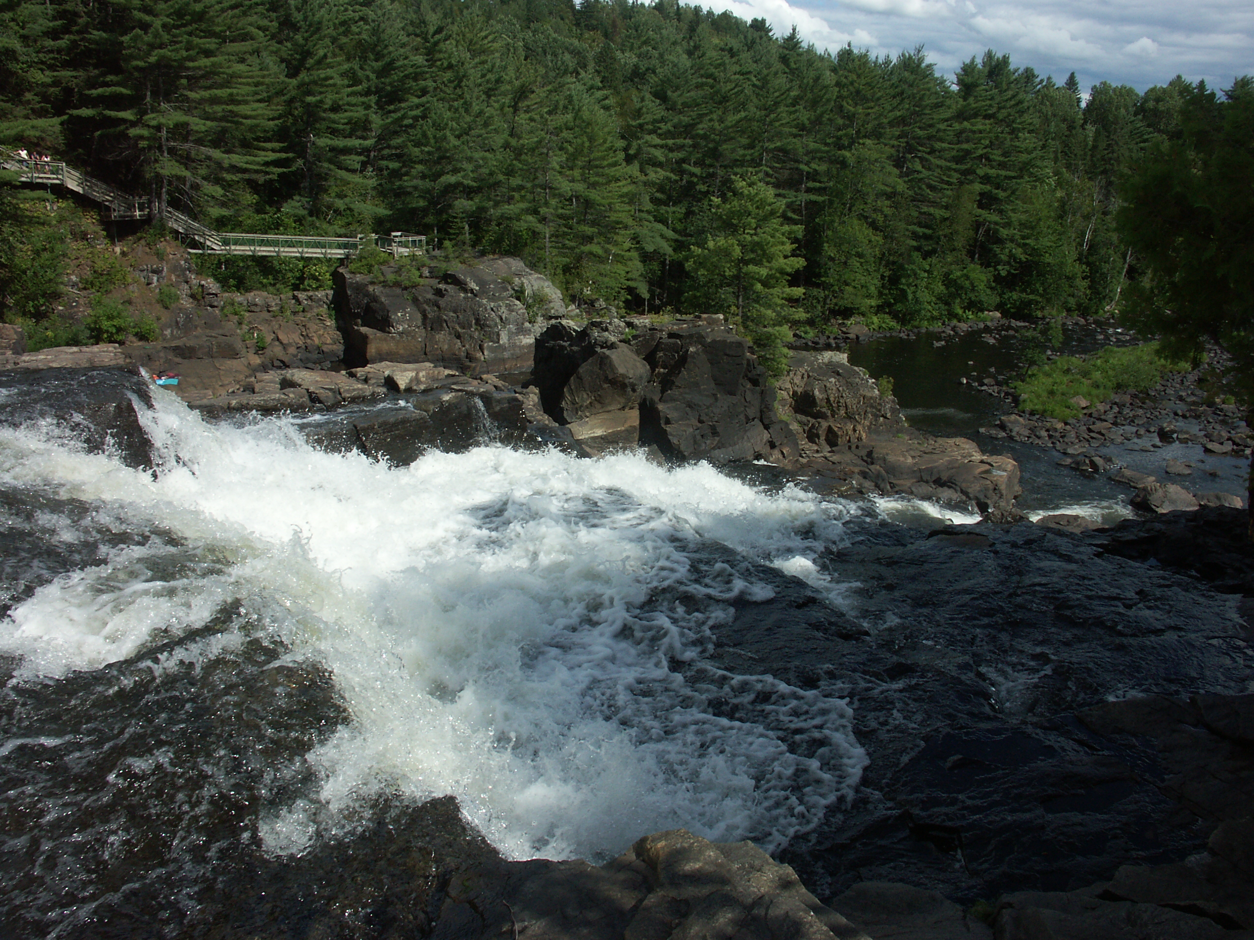 The l'Assomption river, at Saint-Jean-de-Matha, in the park Chutes Monte-à-Peine (Québec, Canada)